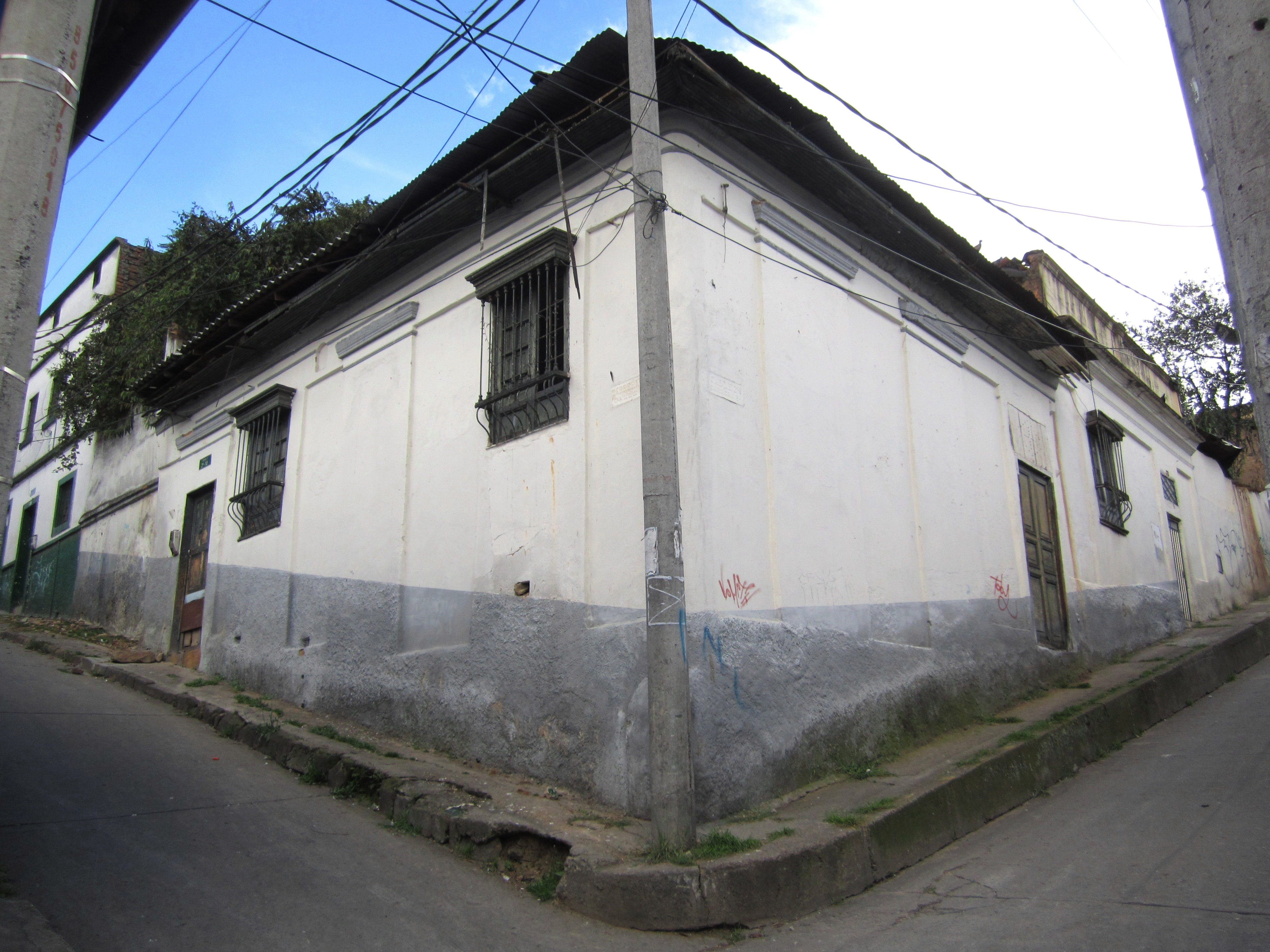 Bogotá